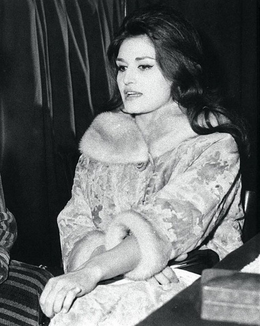 French-Italian singer Dalida (right) with the Italian singer-songwriter Domenico Modugno